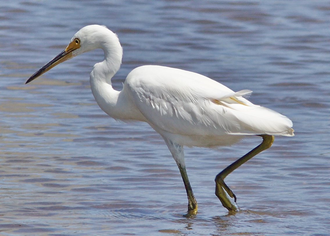 Little Egret Egretta garzetta nigripes, in non-breeding plumage; wild bird. Note the yellowish-soled feet of this subspecies.